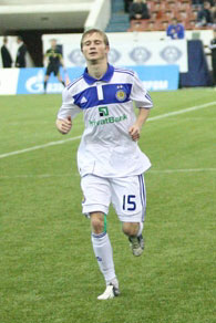 Serhiy Lyulka, Ukrainian footballer, during the game for Dynamo Kyiv